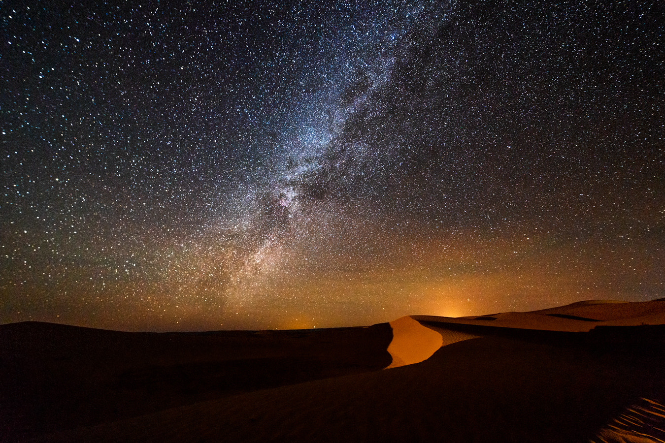 500px provided description: Sahara Night Sky [#night ,#stars ,#desert ,#sahara ,#morocco ,#dune ,#astro ,#nightscape ,#nightsky ,#erg chegaga ,#mily way ,#erg lhoudi]